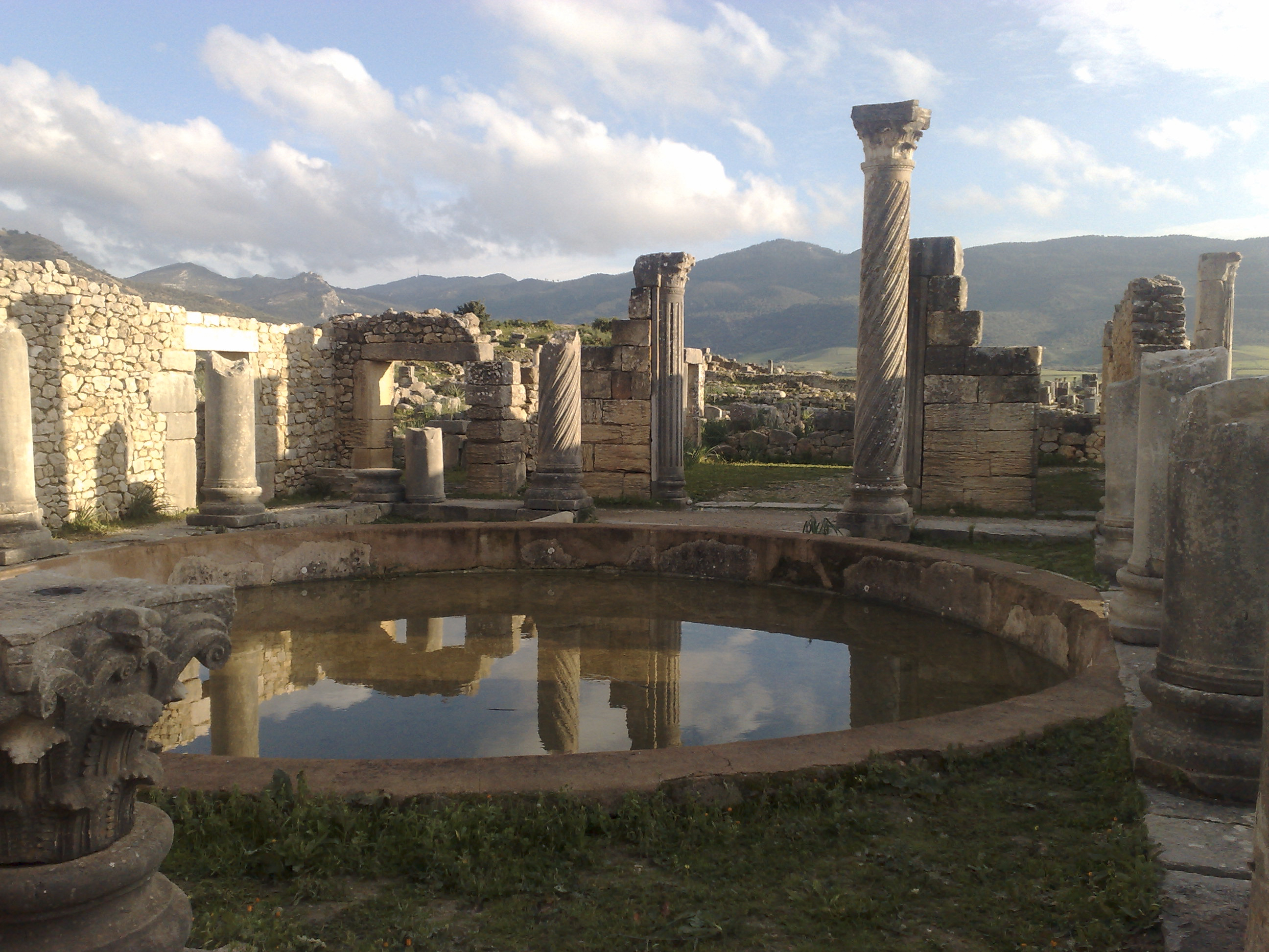 AWIB-ISAW: Volubilis (V) A round impluvium within the atrium of a Roman house in Volubilis, Morocco. by Erik Hermans (2009) copyright: 2009 Erik Hermans (used with permission) photographed place: Volubilis Published by the Institute for the Study of the Ancient World as part of the Ancient World Image Bank (AWIB). Further information